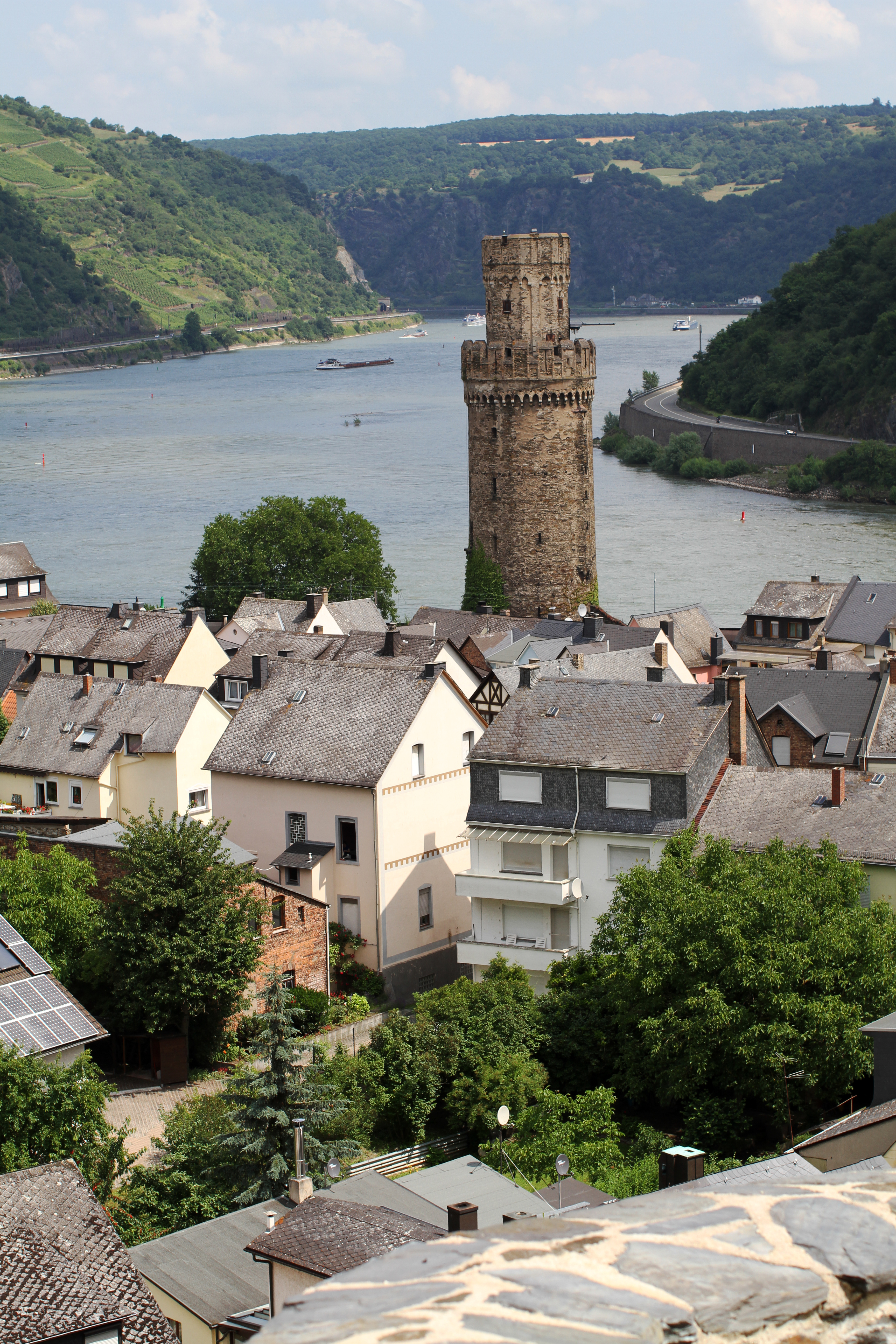 Medieval defensive wall of Oberwesel, Rhine, Germany. The photograph shows Ochsenturm, riverside City in north.